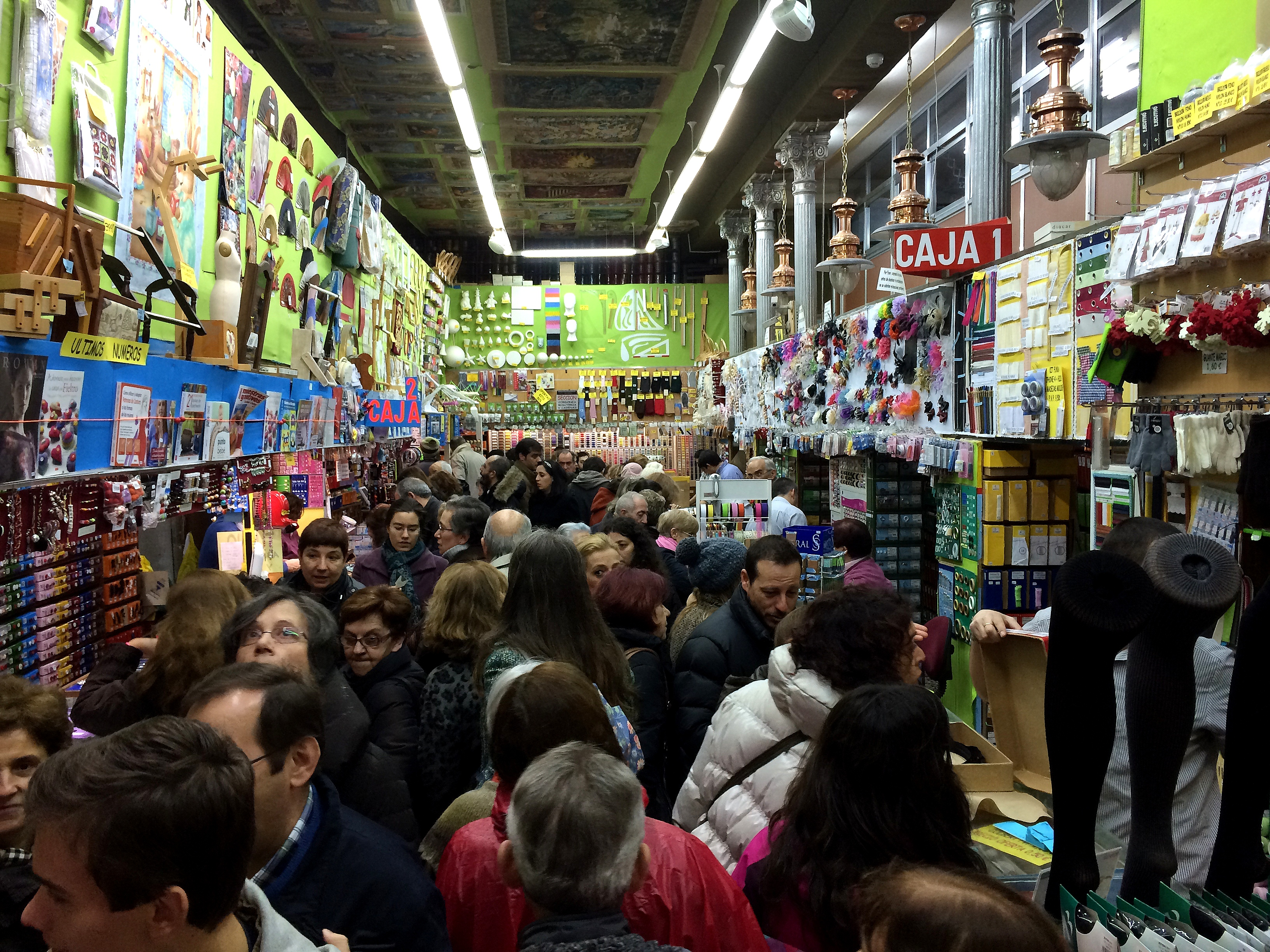 A haberdasher's shop in the center of Madrid (Almacén de Pontejos, 2 Plaza de Pontejos, 28012 Madrid, Spain, +34 915 21 55 94, )